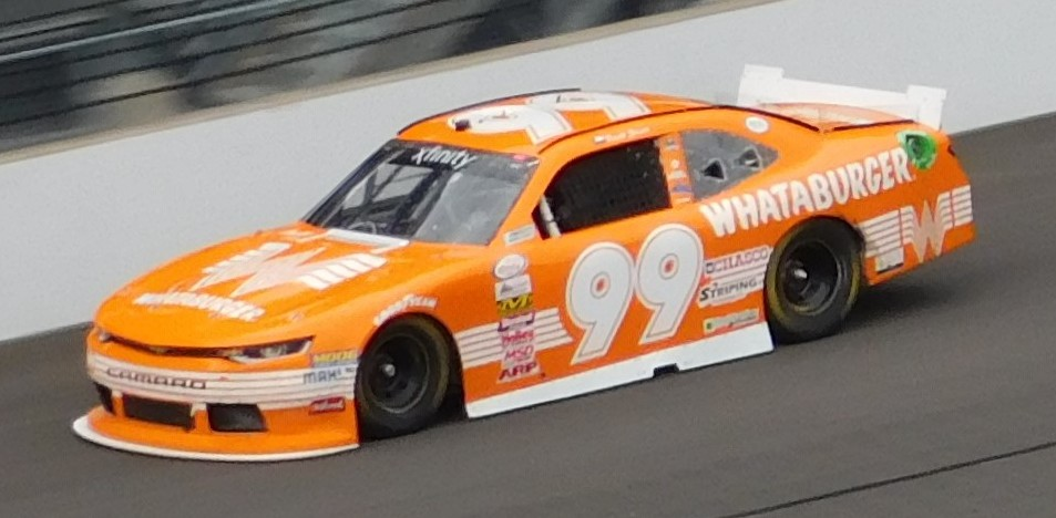 David Starr's No. 99 Whataburger Chevrolet at Indianapolis Motor Speedway in 2017